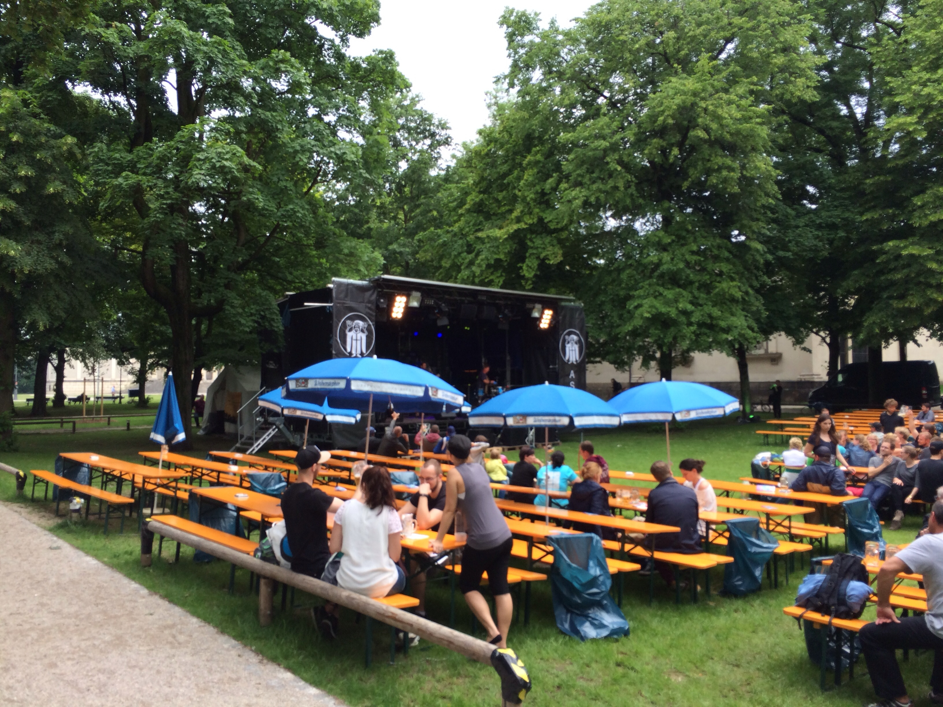 TUNIX view to stage